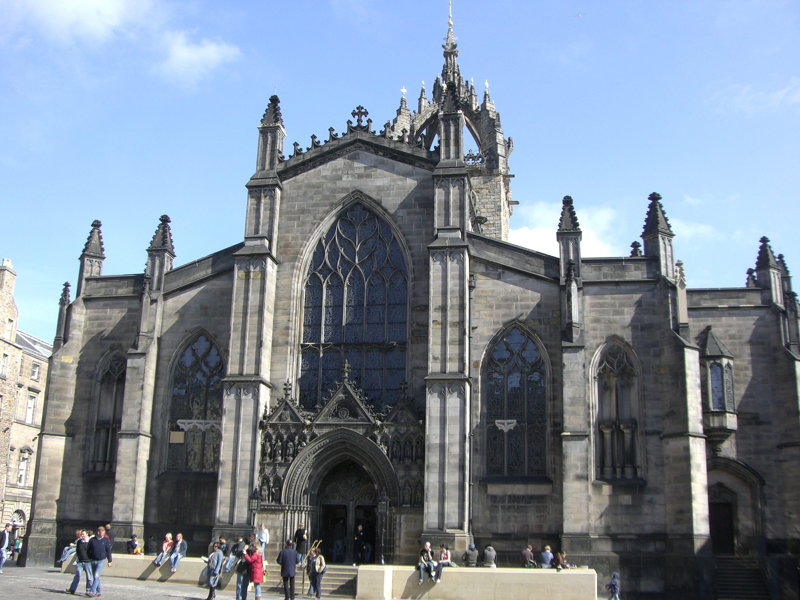 St. Giles' Cathedral, Edinburgh, seen from West Parliament Square.